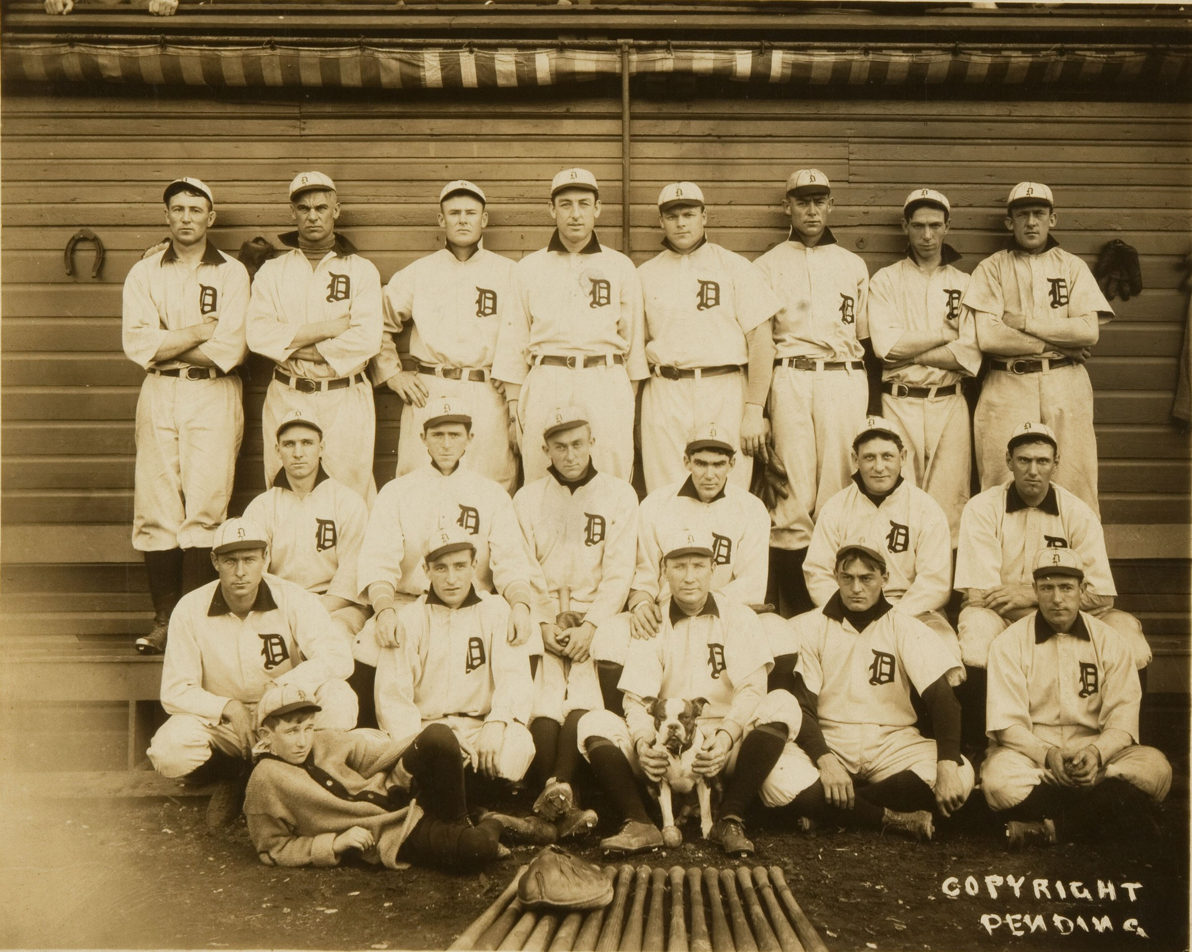 Accession No.: 06_06_000060 Title: Detroit Tigers, Champions of the American League in 1907 Caption: Detroit's Champions of the American League, 1907. Creator: Heimer Date: 1907 Format: photograph Description: Top row, left to right: John Eubanks, Claude Rossman, Sam Crawford, Bill Donovan, George Mullin, Ed Willett, Fred Payne and Ed Killian. Center: Davy Jones, Red Downs, Ty Cobb, Bill Coughlin, Germany Schaefer, and Elijah Jones. Front: Ed Siever, Jimmy Archer, Hughie Jennings, Boss Schmidt and Charley O'Leary. BPL Collection: McGreevey Collection BPL Department: Print Subject: Baseball--History Detroit Tigers (Baseball team)